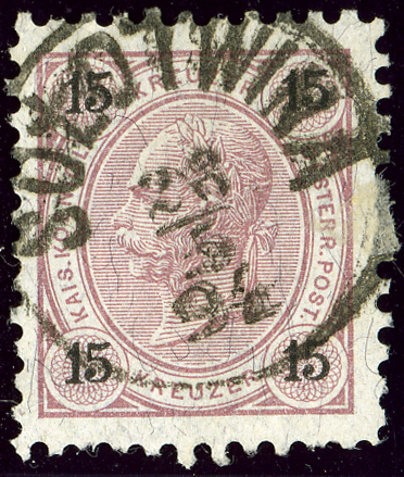 Austrian KK 15 kreuzer stamp , cancelled 1894 in Polish SOLOTWINA (Galicia, Ukraine)